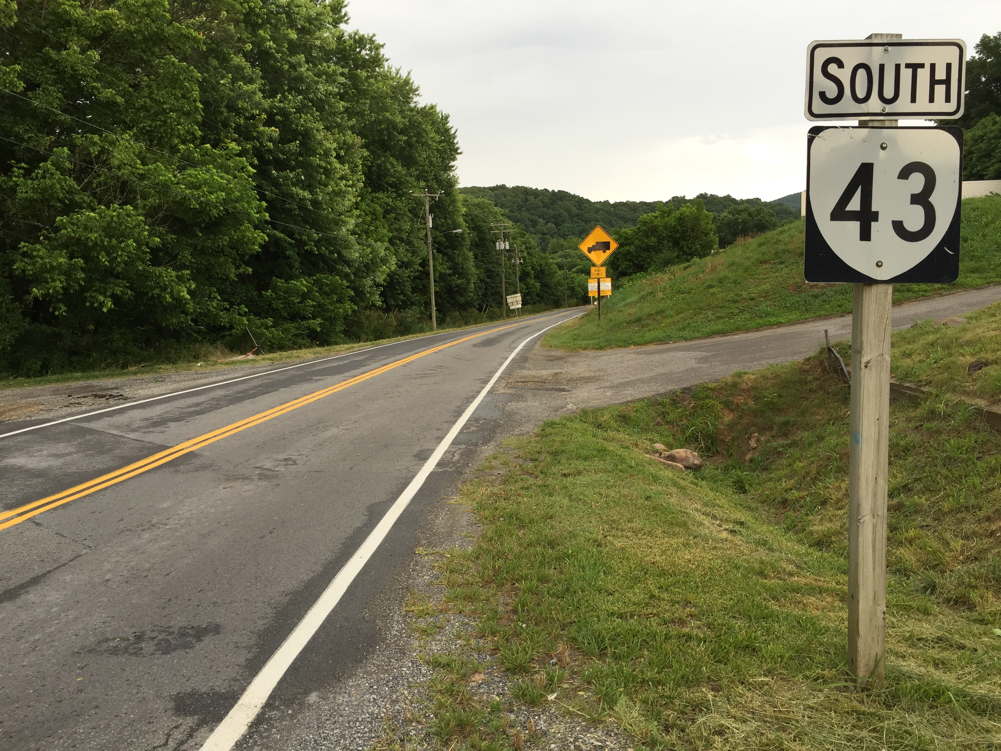 View south along Virginia State Route 43 (Parkway Drive) at Bridge Street (Virginia State Secondary Route 1315) in Buchanan, Botetourt County, Virginia